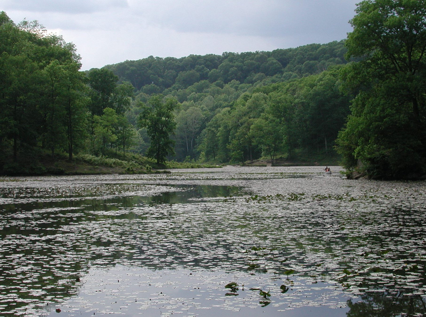 View of Lake Hope in Lake Hope State Park in Vinton County, Ohio. View is from the Furnace Trail near the head of the lake.